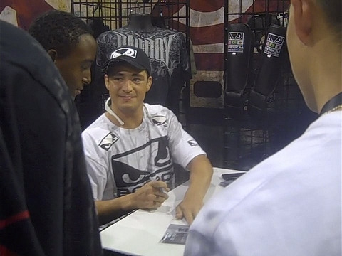 Diego "The Nightmare" Sanchez with fans - UFC 100 Fan Expo - Mandalay Bay Casino, Las Vegas